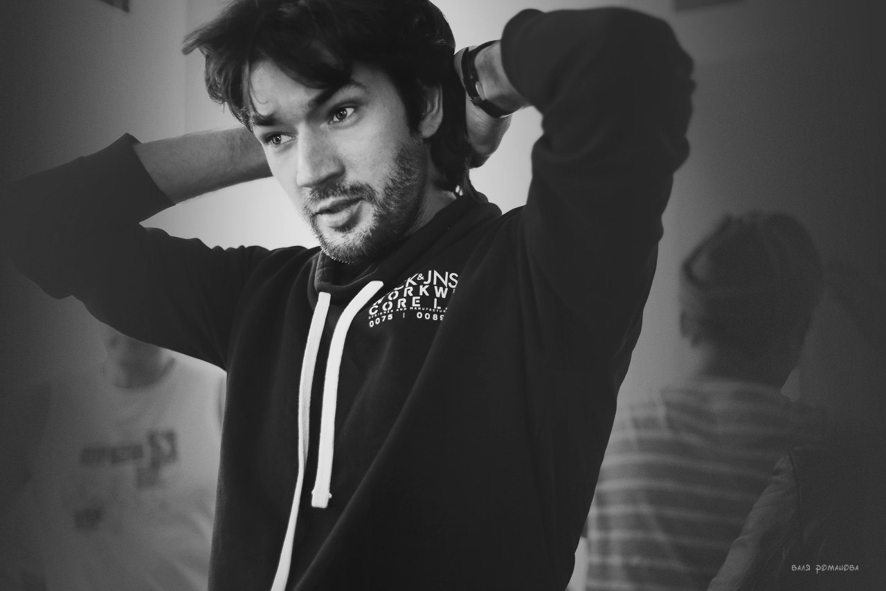 Director of the film 28 panfilovtsev Kim Druzhinin, 2015